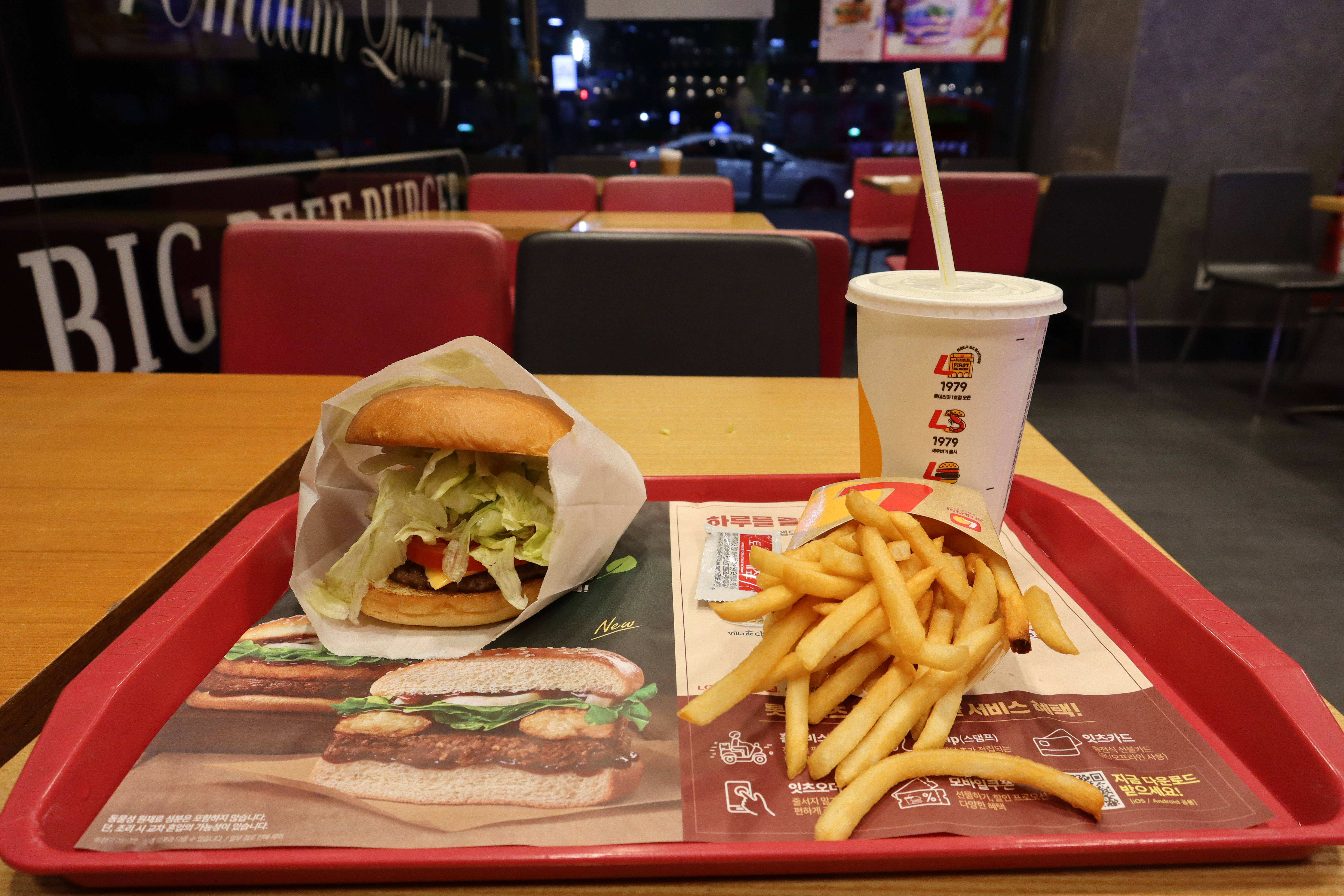 Lotteria AZ Burger set in Busan, Korea